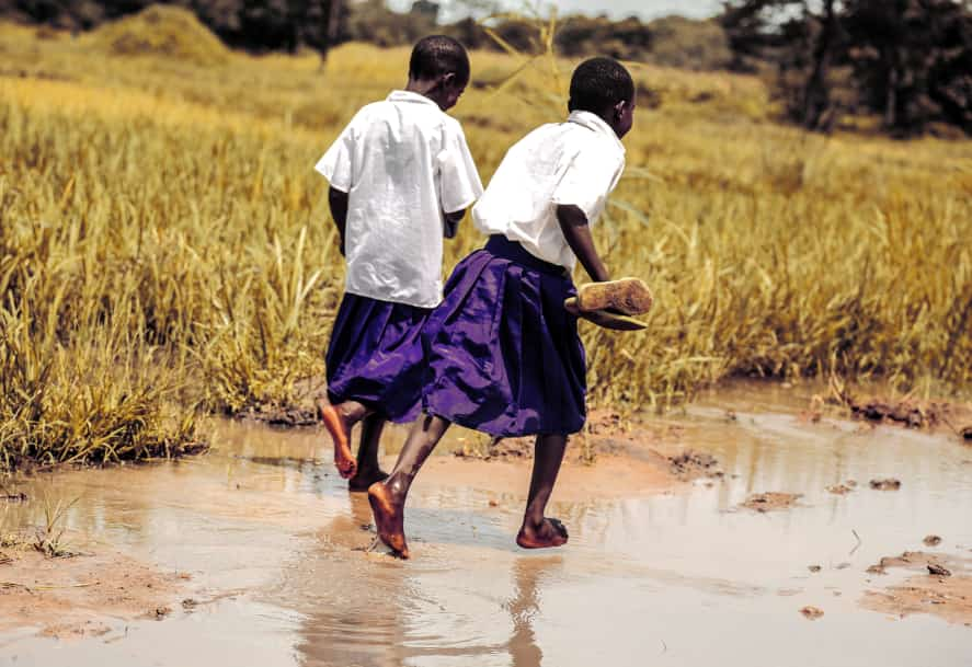 Two School Girls going home. This Photo taken in Sumbawanga, Tanzania This is an image with the theme "Play" from: Tanzania